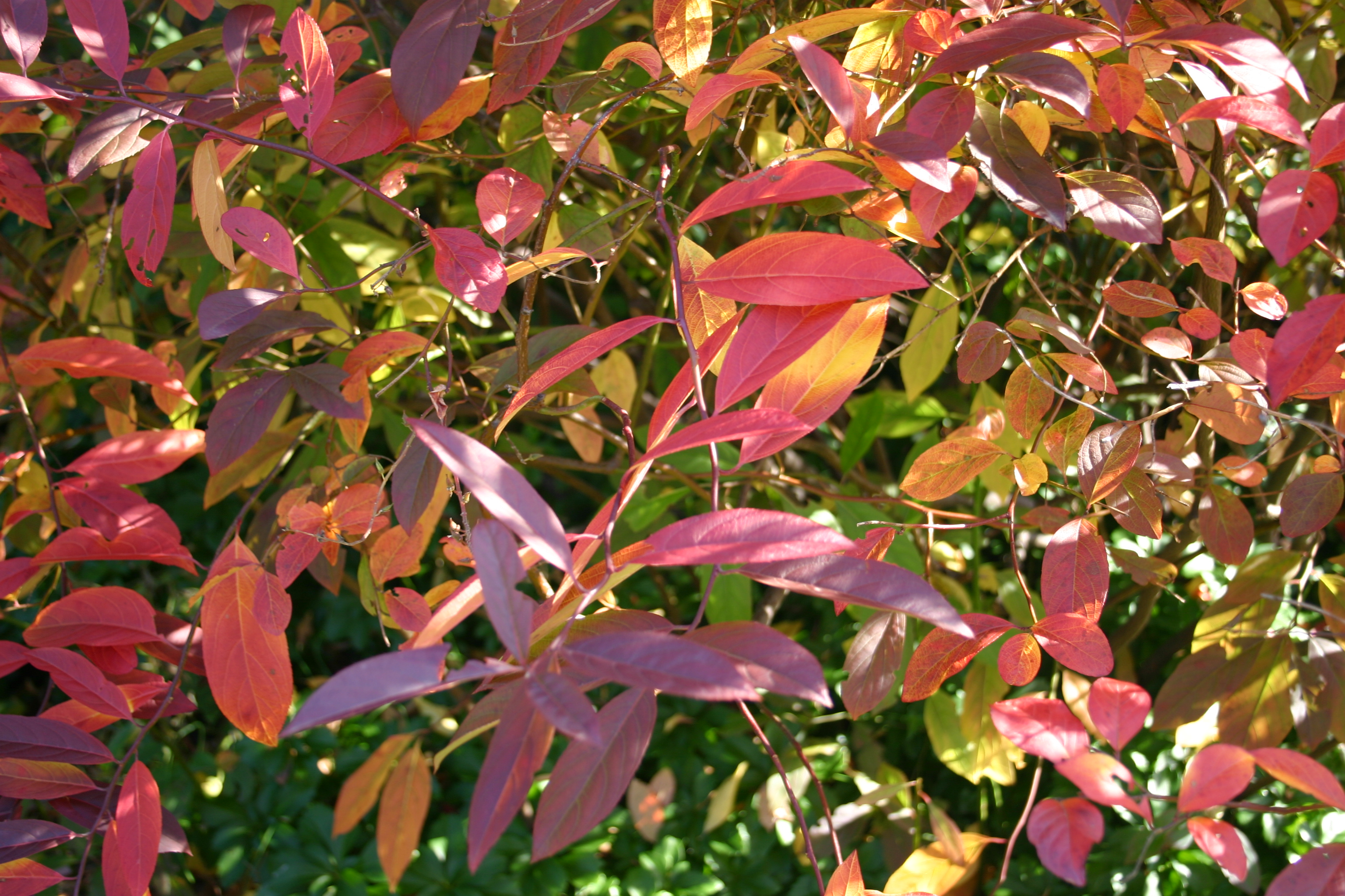 Closeup of Itea virginica in fall color